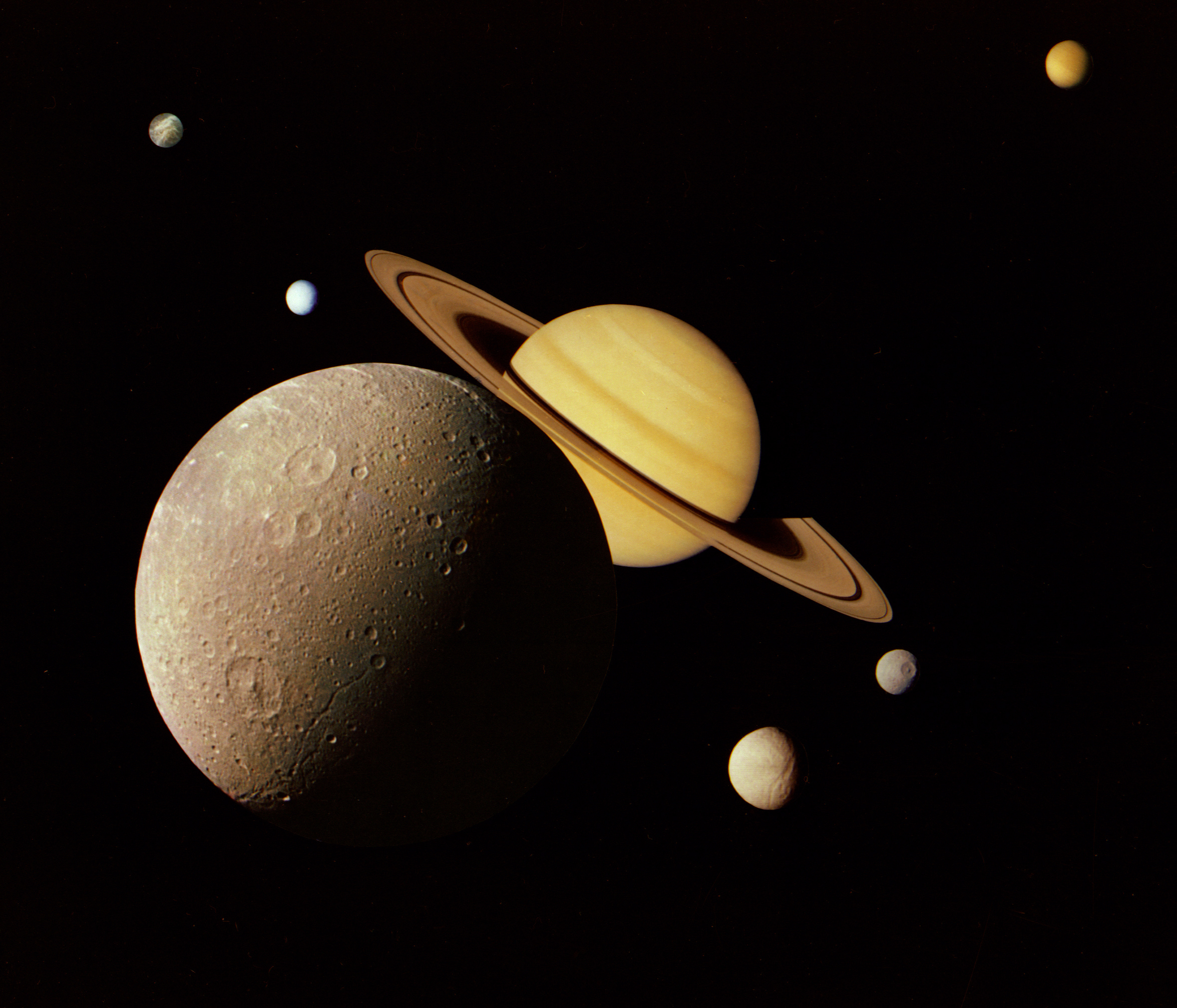 This montage of images of the Saturnian system was prepared from an assemblage of images taken by the Voyager 1 spacecraft during its Saturn encounter in November 1980. This artist's view shows Dione in the forefront, Saturn rising behind, Tethys and Mimas fading in the distance to the right, Enceladus and Rhea off Saturn's rings to the left, and Titan in its distant orbit at the top. The Voyager Project is managed for NASA by the Jet Propulsion Laboratory, Pasadena, California.